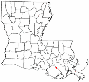 Whoever uploaded it doesn't care about letting anyone know what it shows. I'll guess that its a map showing the location of the town of Houma in the state of Louisiana